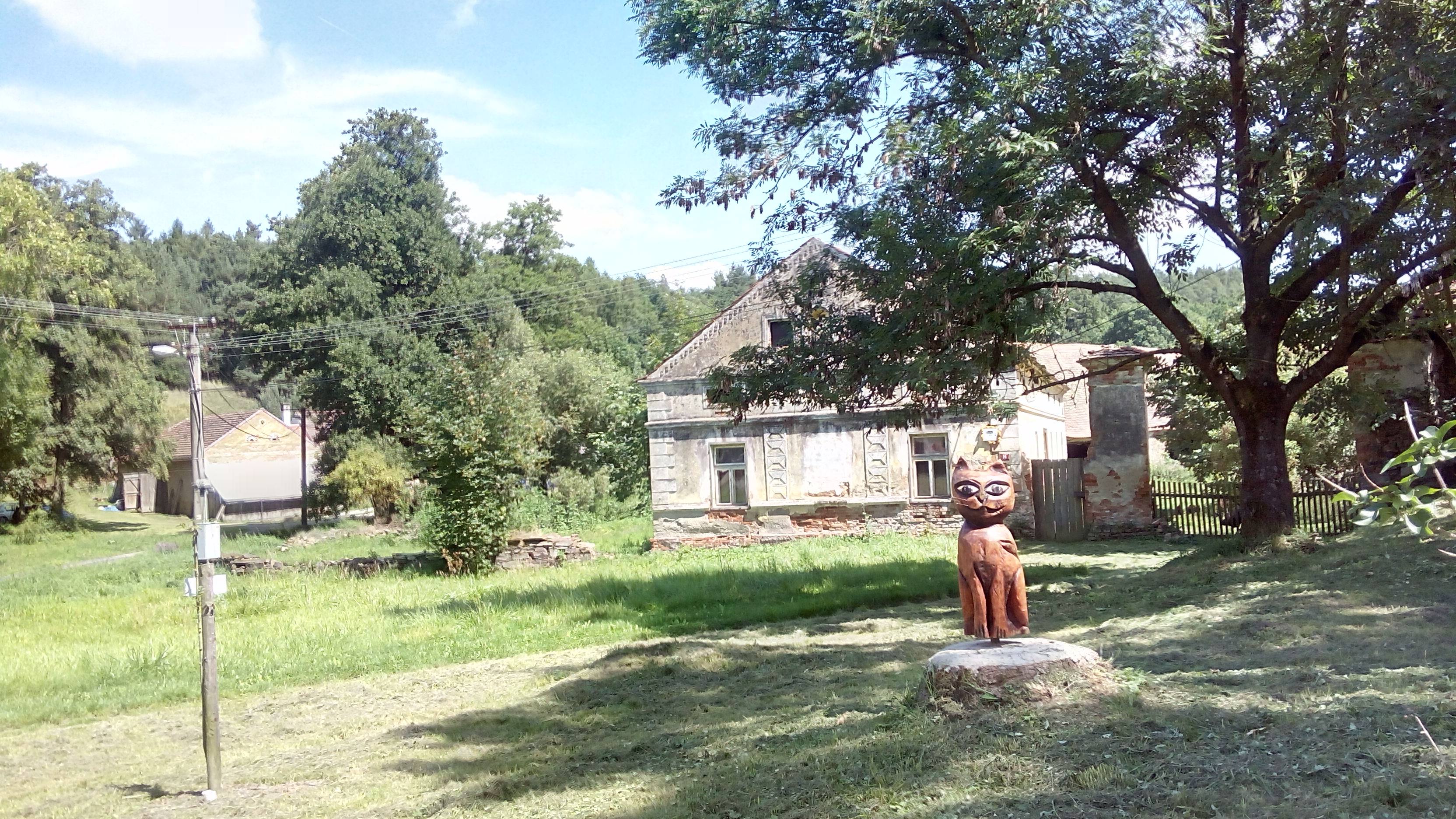 Village green with tomcat in Kocourov ("Tomcat-town"), part of Horšovský Týn, Plzeň Region, Czech Republic.